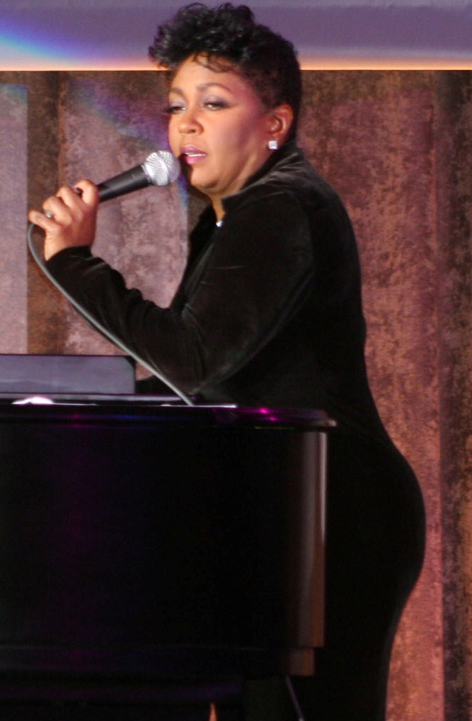 Singer Anita Baker performs at the 17th Annual Salute to Freedom aboard the Intrepid Sea, Air & Space Museum, in New York.